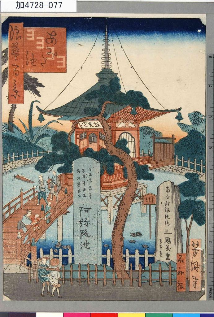 The Temple of Amida Pond (Amida-ike), from the series One Hundred Views of Osaka (Naniwa hyakkei)